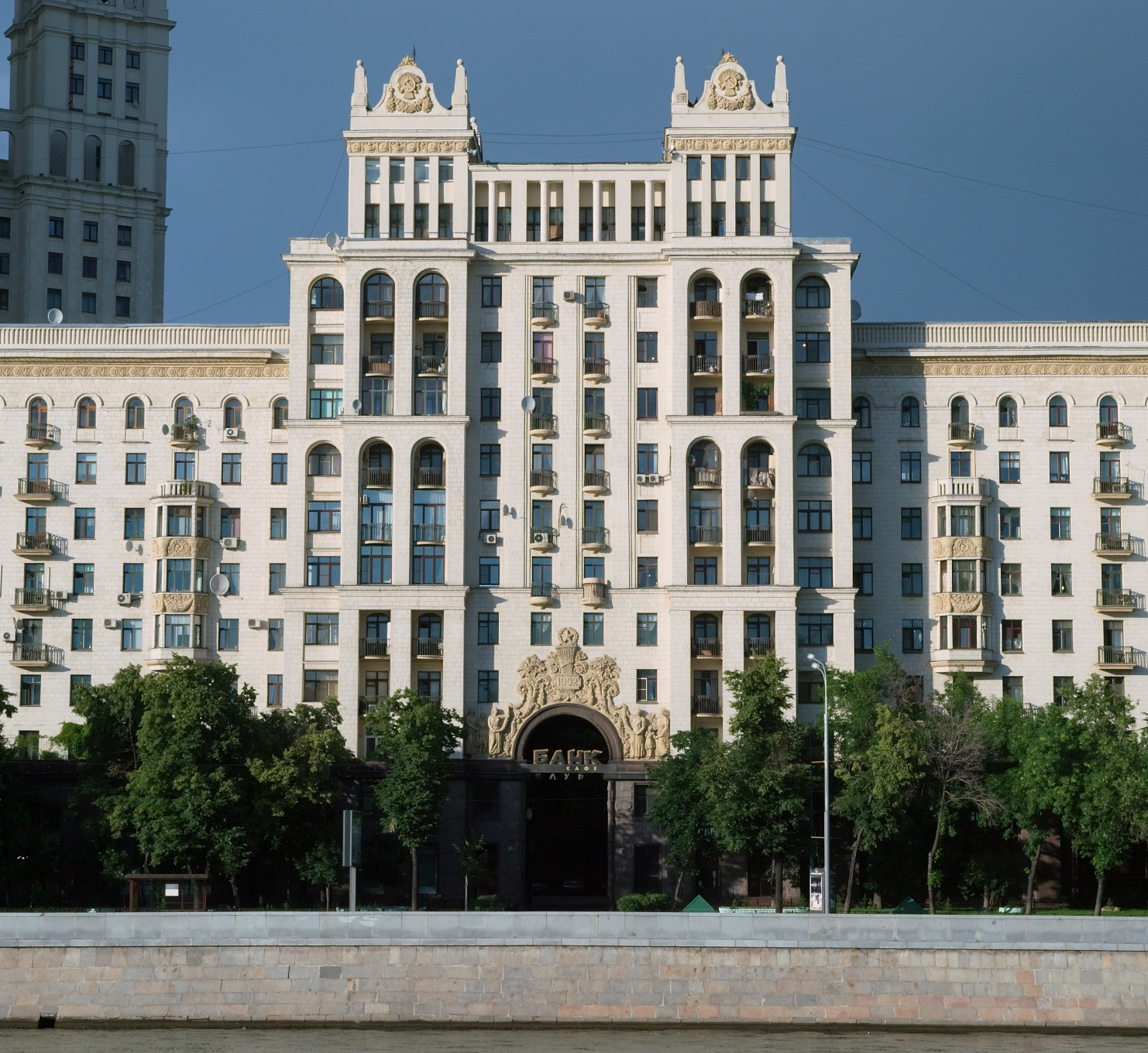 Side wing of Kotelnicheskaya Tower in Moscow